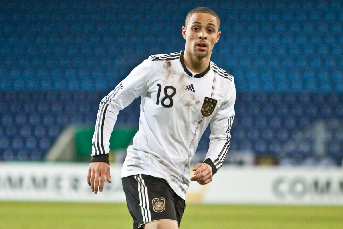 Sidney Sam in U-21 German National team